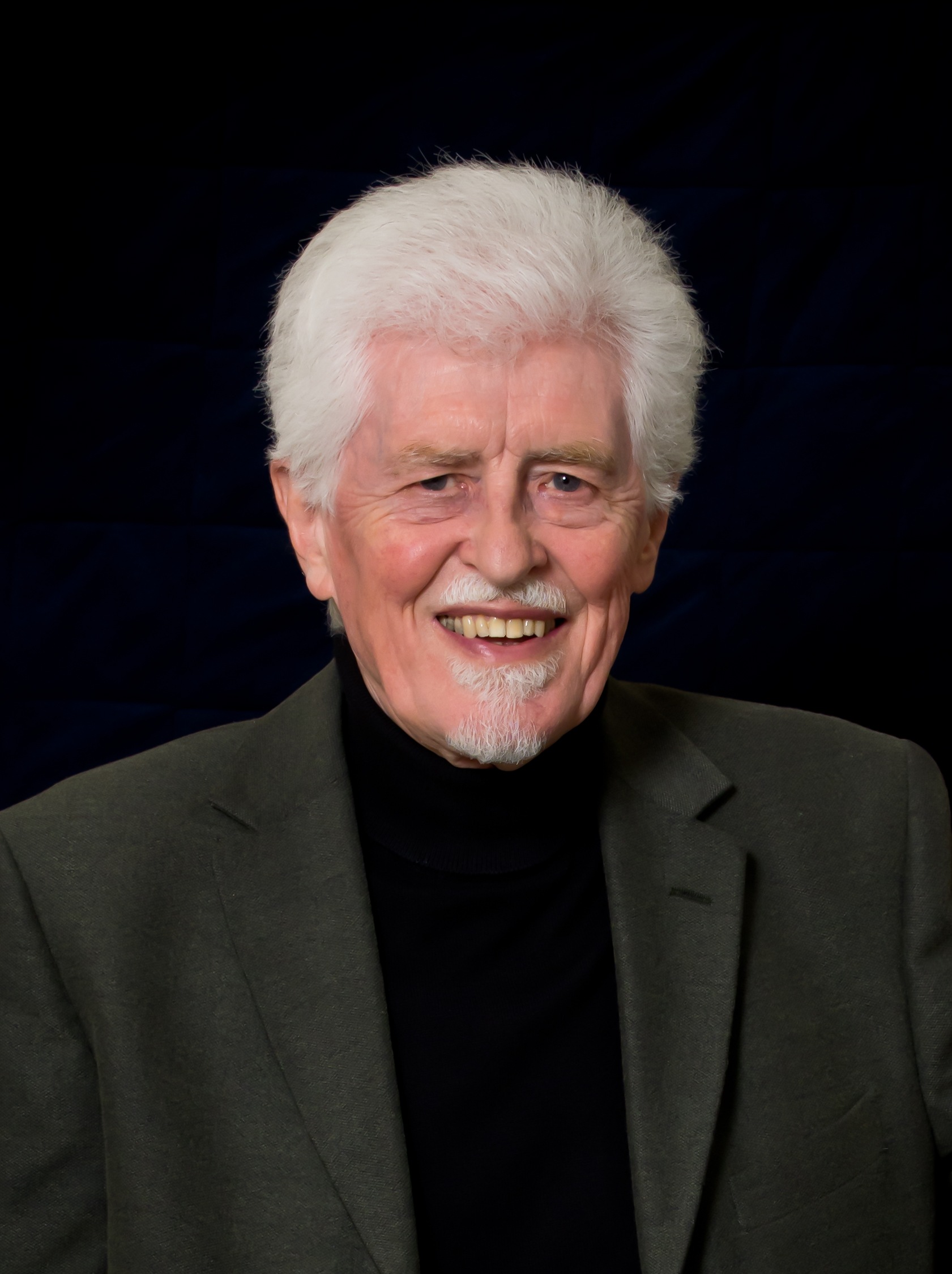 Image of Brian Priestley, musician from Manchester, UK